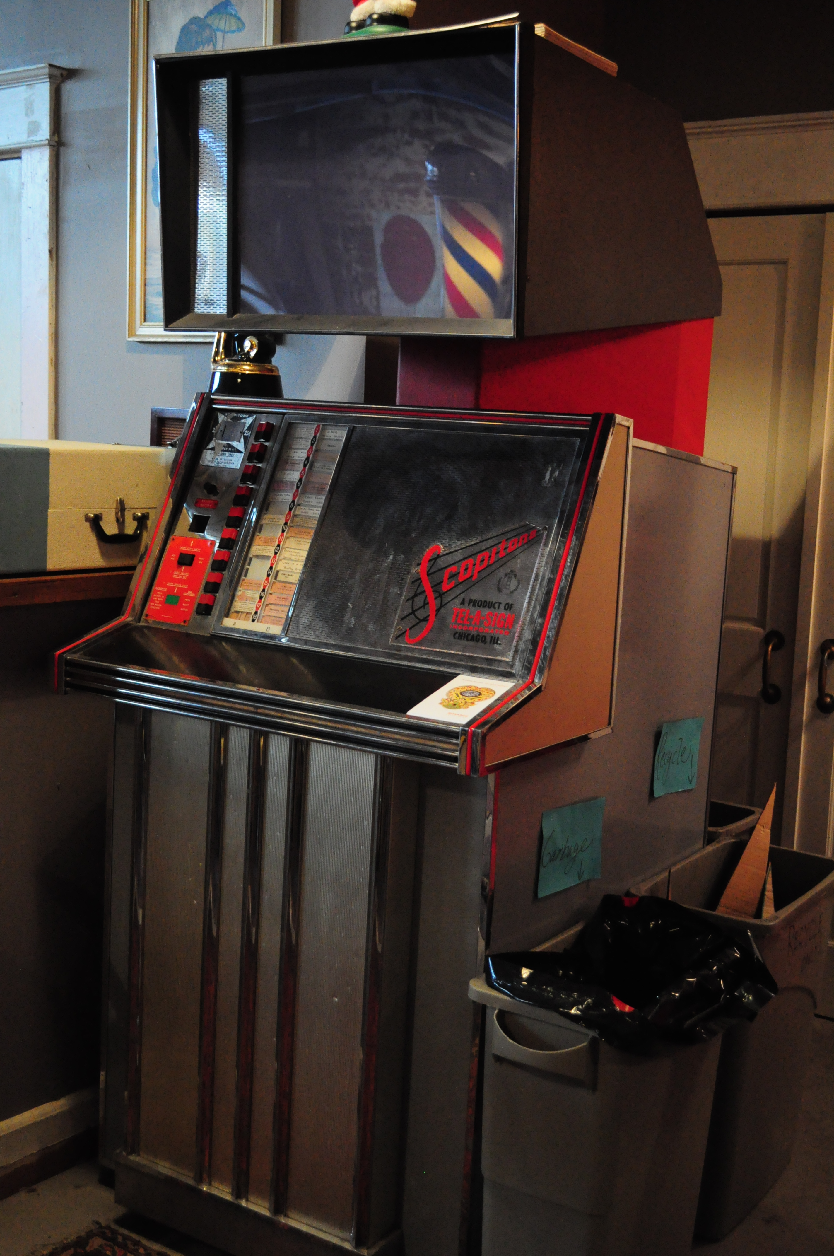 Scopitone juke box. These played 16mm music films, precursors to music video. Photographed at "The Stables" behind Full Throttle Bottles, Georgetown, Seattle, Washington.